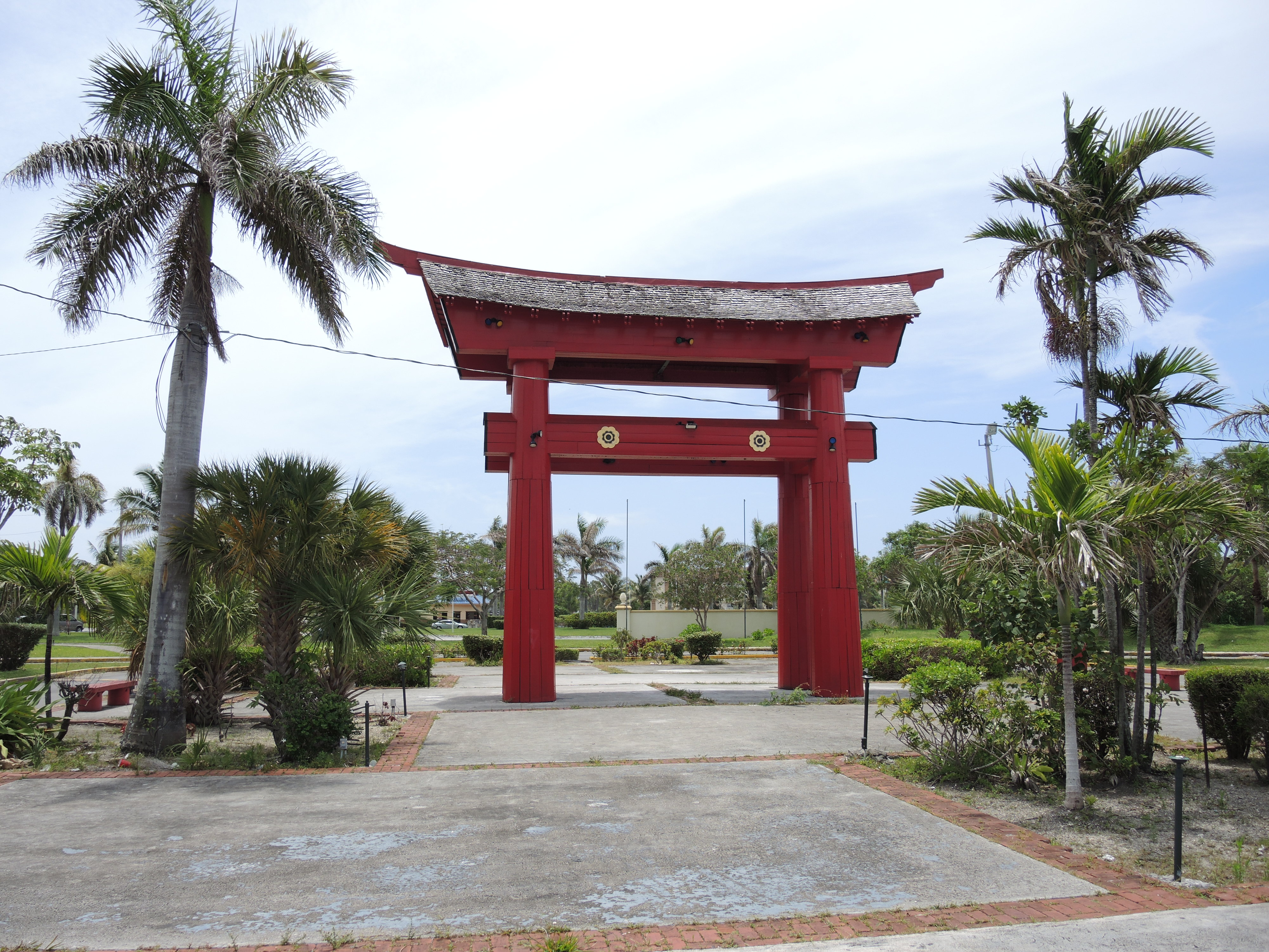 The International Bazaar Freeport